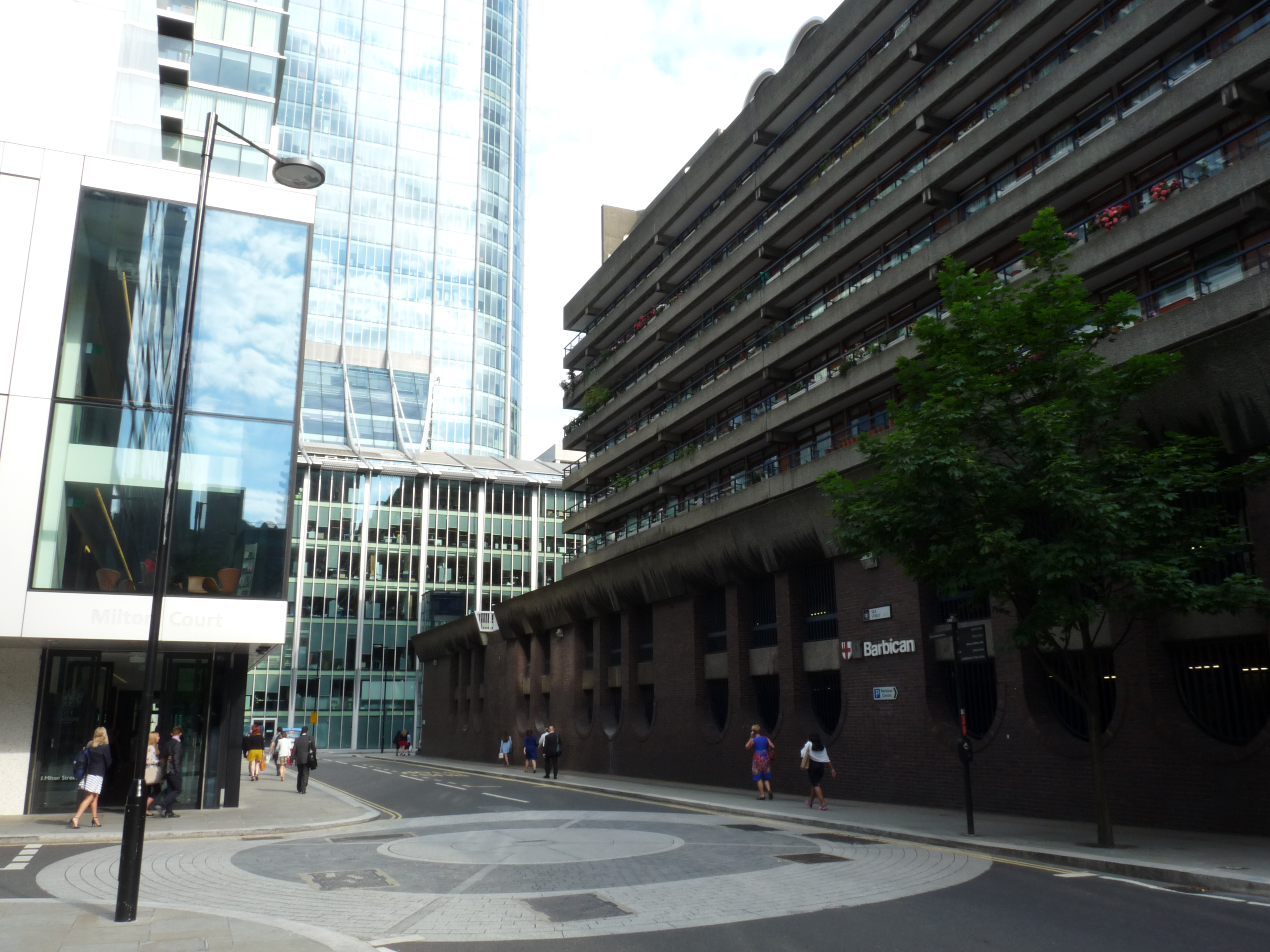 Illustration of the walking routes to Wikimania 2014, this image shows the route between the Barbican Centre and Moorgate station at street level. This is the view southeast along Silk Street showing the junction with Milton Street. Speed House and the Speed Highwalk are two storeys above ground level on the right